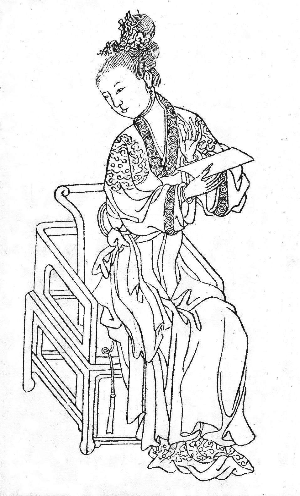 Su Hui(蘇蕙) was a Chinese woman during Sixteen Kingdoms.